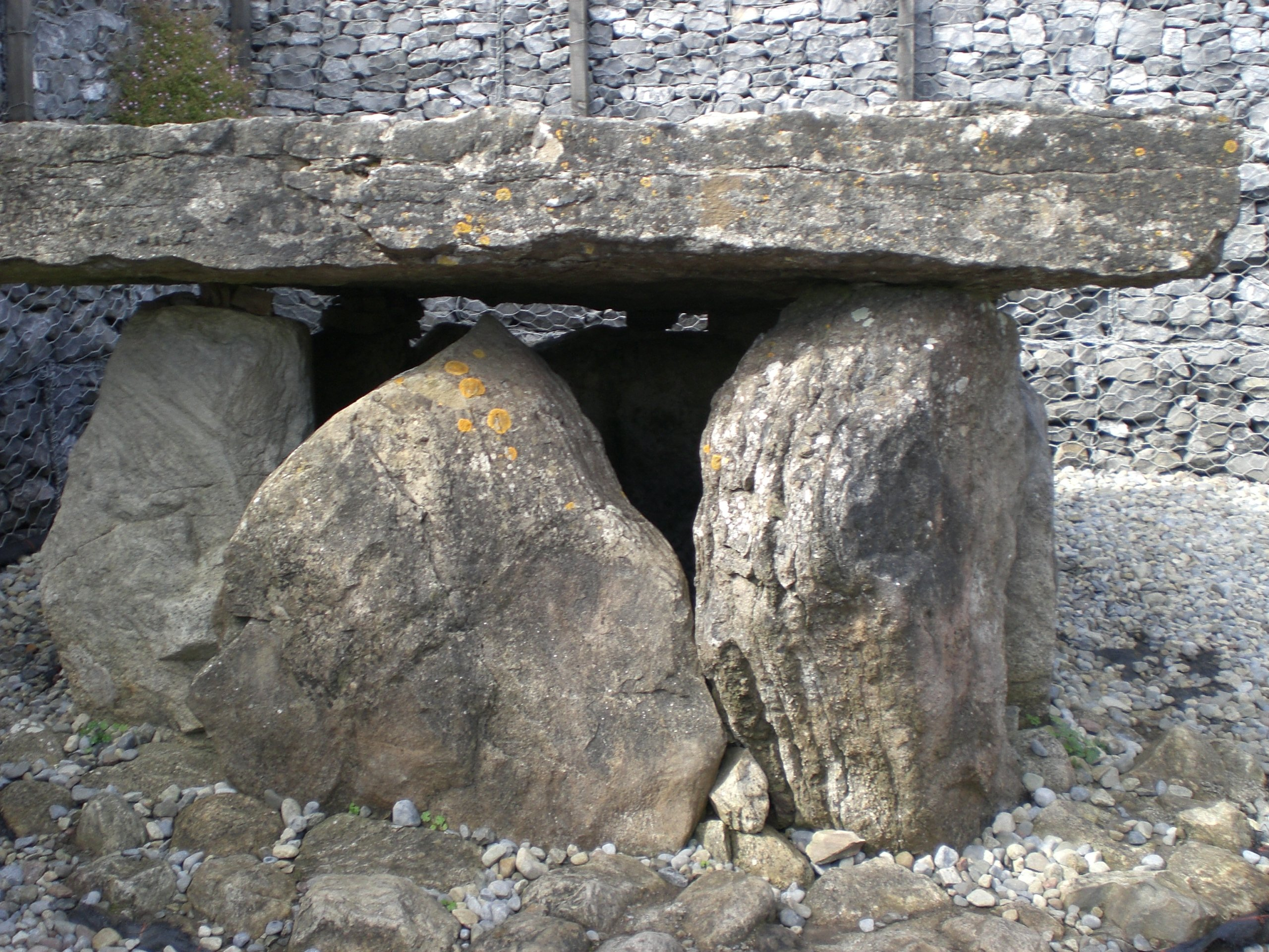 The central chamber in the Listoghil, County Sligo, Ireland.